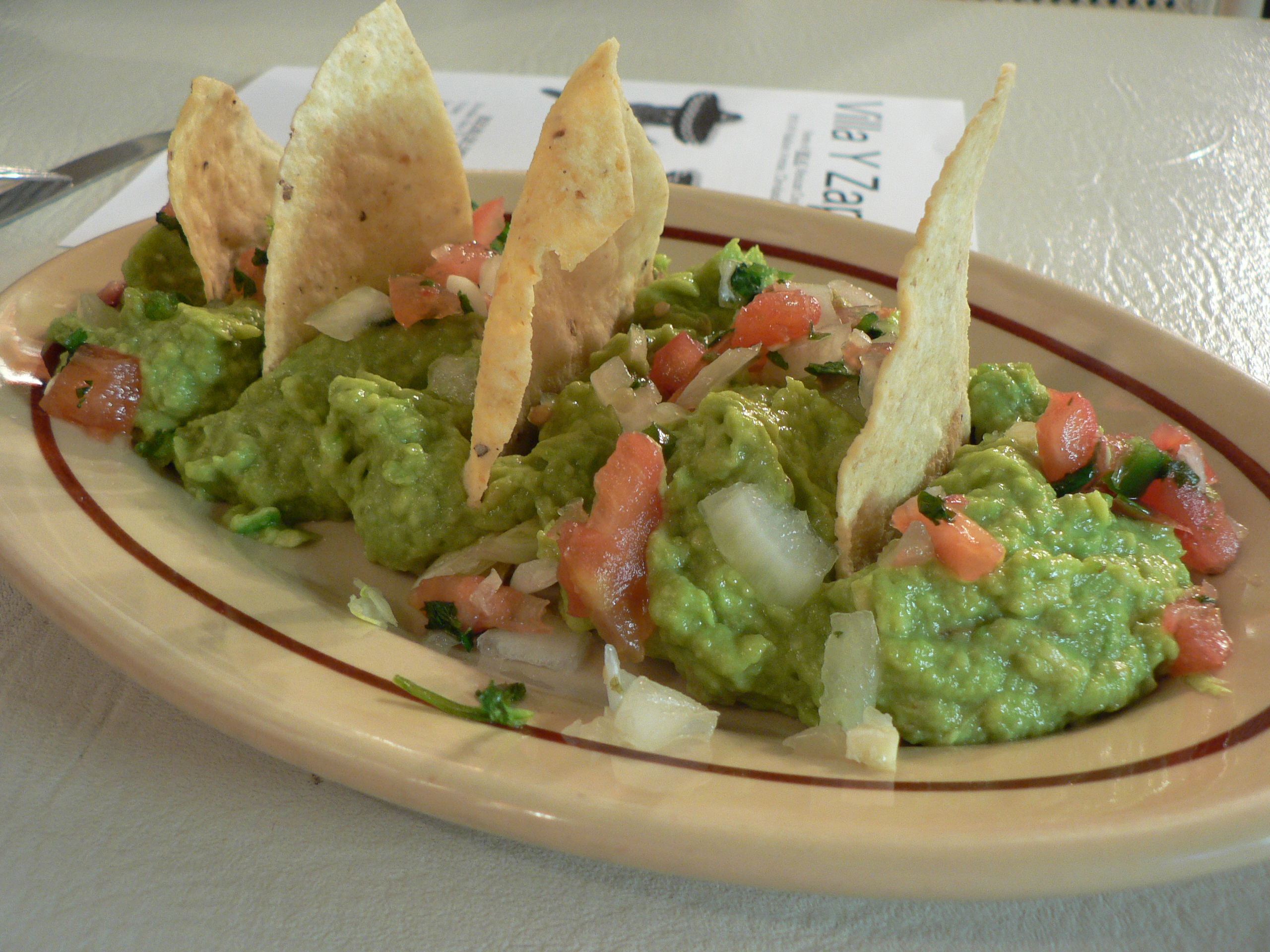 Guacamole with tortilla chips